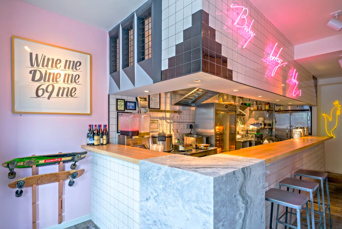 BABY BRASA Lower East Side (129 Allen St, New York, NY 10002)